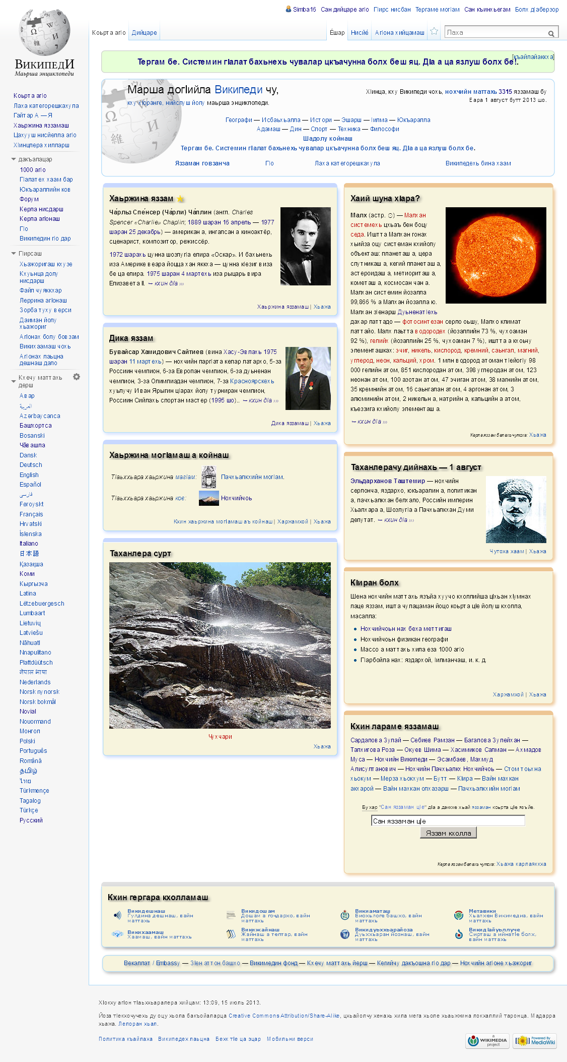 Chechen Wikipedia main page 2013 August 1